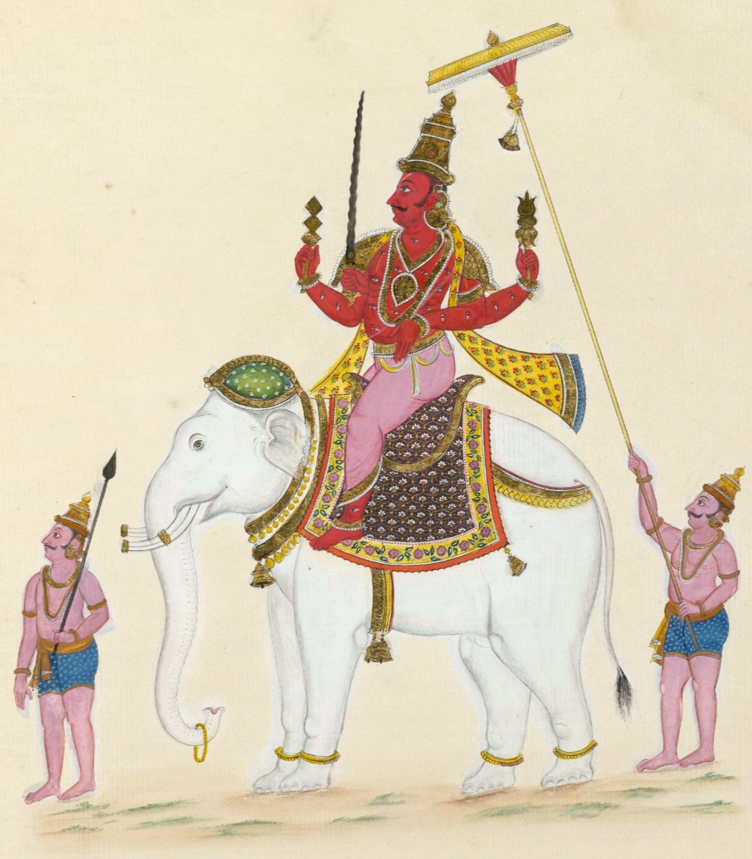 "Painting of Indra on his elephant mount, Airavata. Painted in South India (probably Thanjavur or perhaps Tiruchchirapalli) Indra is depicted red-skinned and covered in his all-seeing eyes. In his two right hands he carries weapons - a sword and a thunderbolt. In front, an attendant walks with a spear. Behind walks another attendant carrying a large parasol which shades the king of the gods. On laid and water-marked European paper with 'W Thomas'. Elsewhere in the series the date 1816 appears in the watermark."